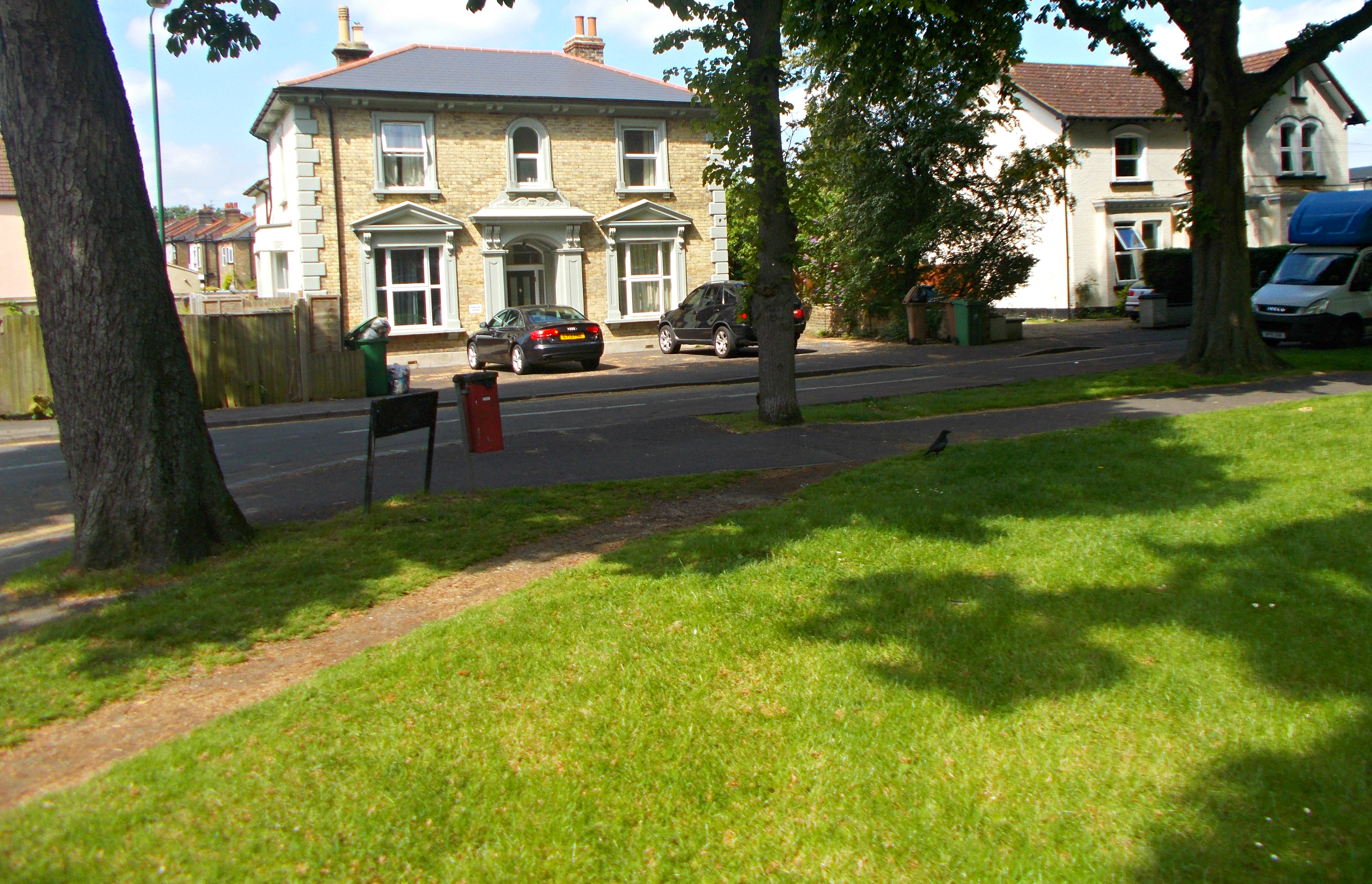 Houses overlooking Sutton Green, Sutton, Surrey, Greater London